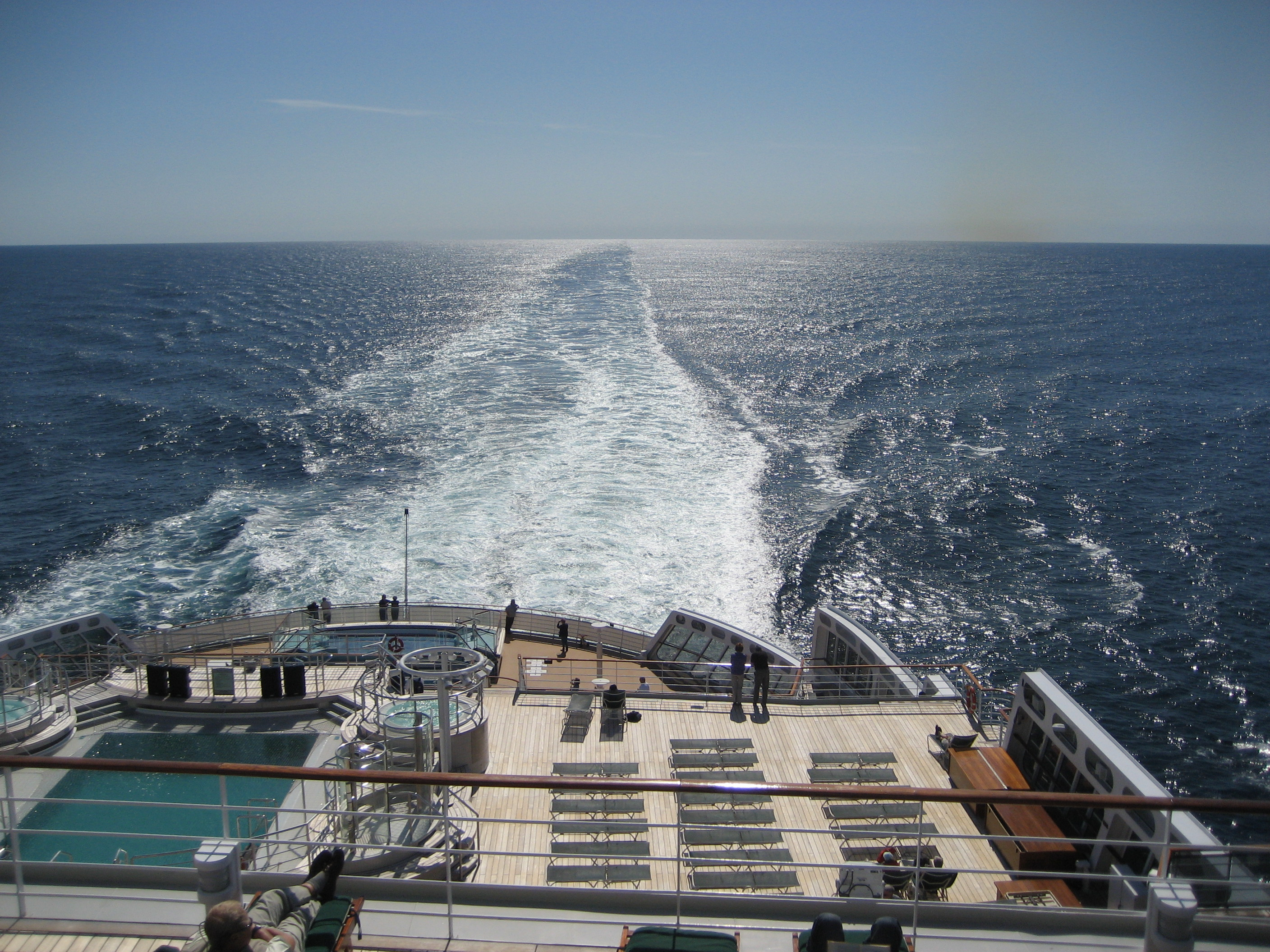 View from the back of QM2